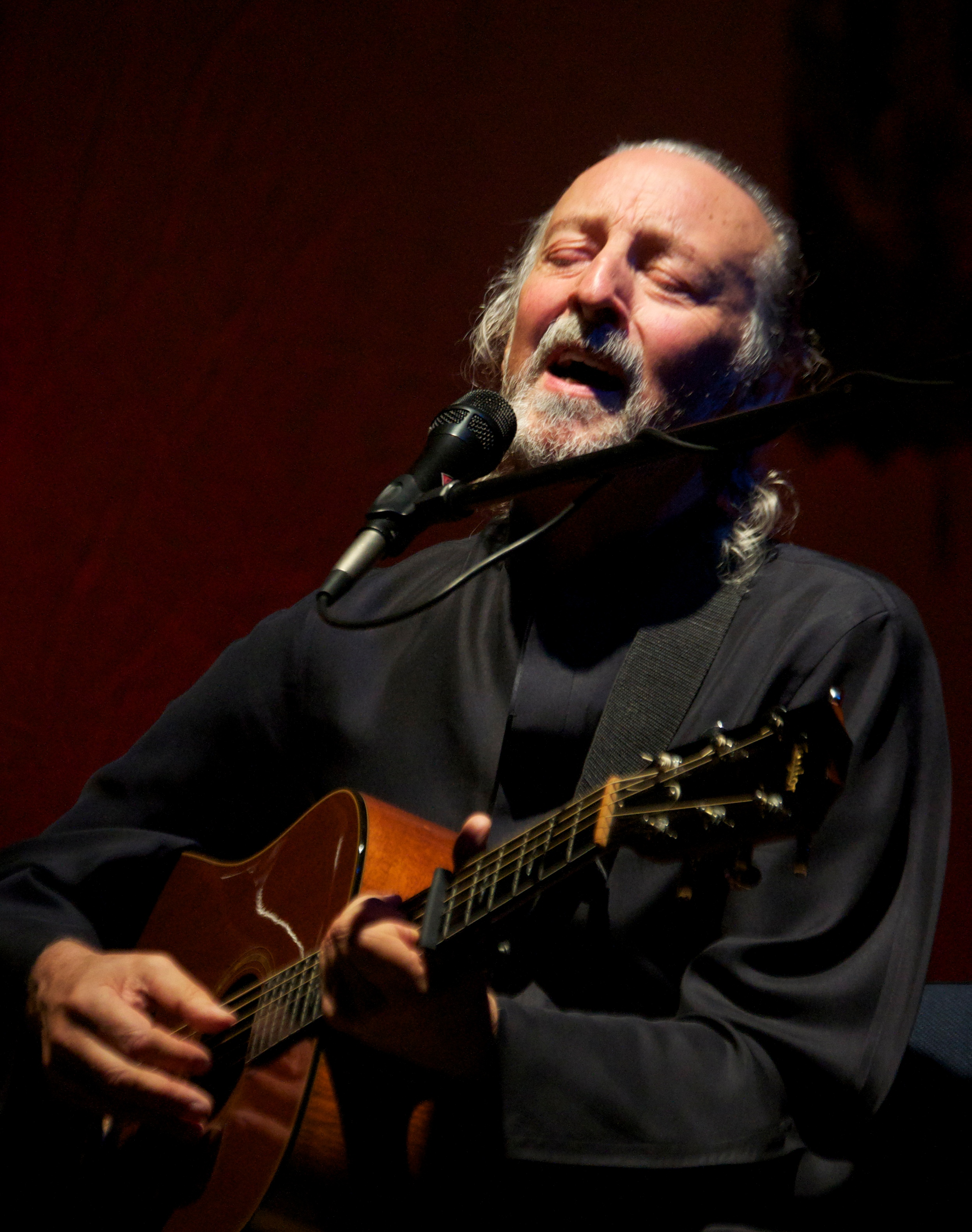 Miten from concert: Herkulesaal, Munich, Germany on 10 October 2010.